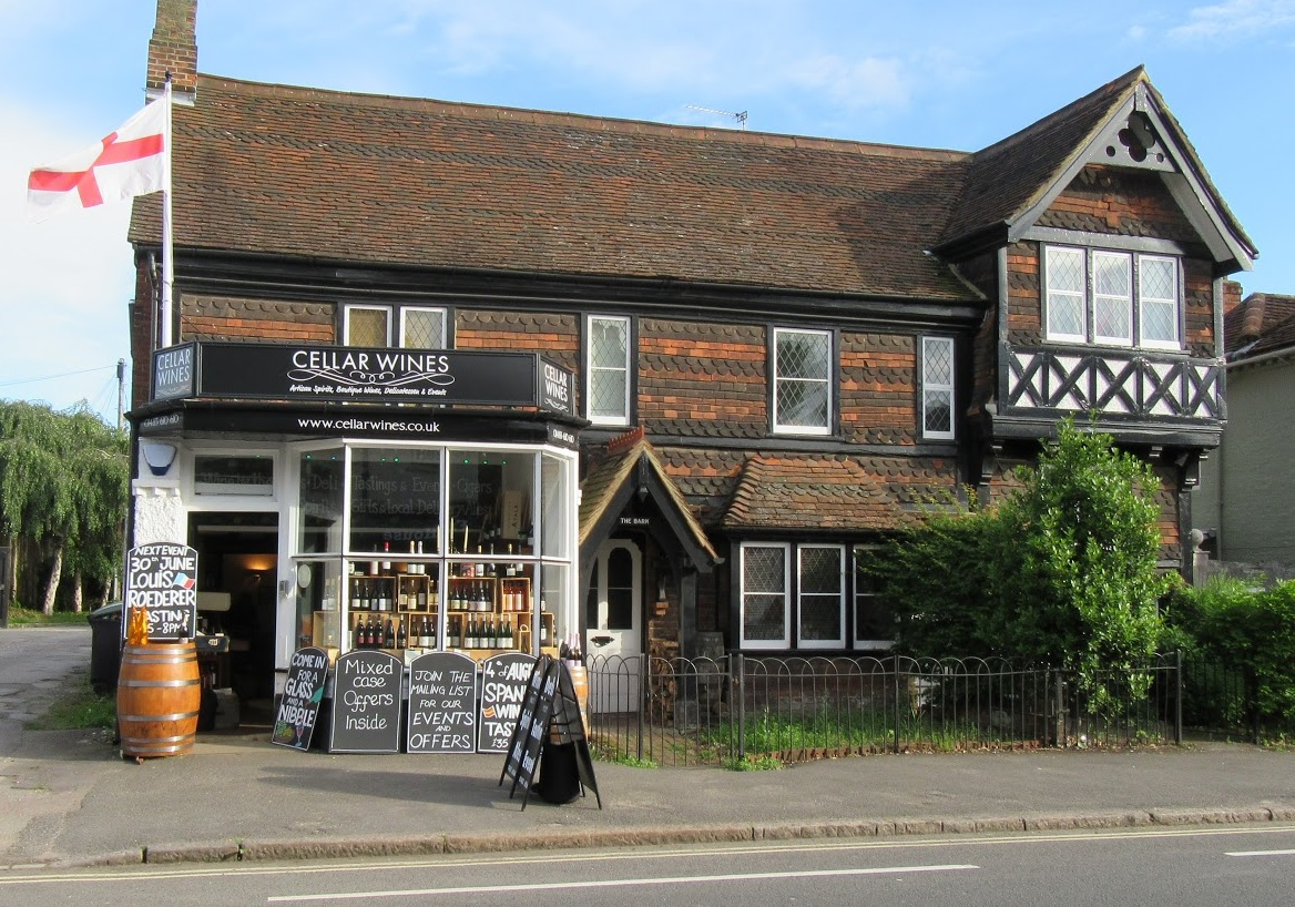 High Street, Ripley, Surrey. GU23 6BB